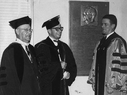 In establishing the Augustus B. Weller Chair in Economics, Long Island's first fully endowed professorial chair, Hofstra University’s Board of Trustees raised $400,000 from Long Island’s business community. On September 23, 1964, the Board awarded the chair to Harvey J. Levin, then chairman of the university’s Economics Department, who held it for its first twenty-five years. Allowing him to spend half his time performing research, funded by think tanks like Resources for the Future (RFF), the chair supported Dr. Levin's groundbreaking study anticipating the evolution of television, satellites, cellular telephones, remotes and wireless internet, and their demands on increasingly congested airwaves. (From left to right: Meadow Brook National Bank Chairman and Hofstra Trustee Augustus B. Weller, Harvey J. Levin, and Hofstra President Clifford Lord)